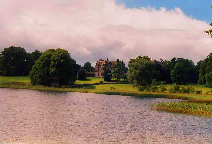 The Estate has three lakes: the largest, Glaslough (from the Irish Glas Loch or Glasloch, meaning Green Lake), shares its name with the local village; Kilvey Lake is to the north; and, finally, there is Dream Lake, which features a crannóg. The 1,000-acre (4.0 km2) estate comprises park land, meandering streams and several forests. The house is still home to the Leslie family with Sir Jack Leslie in residence and principal owner Samantha (Sammy) Leslie. Other family members still assert their influence on the running of the estate through a family trust.